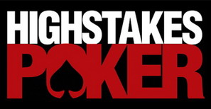 Source: [1] Game Show Network's television series High Stakes Poker logo